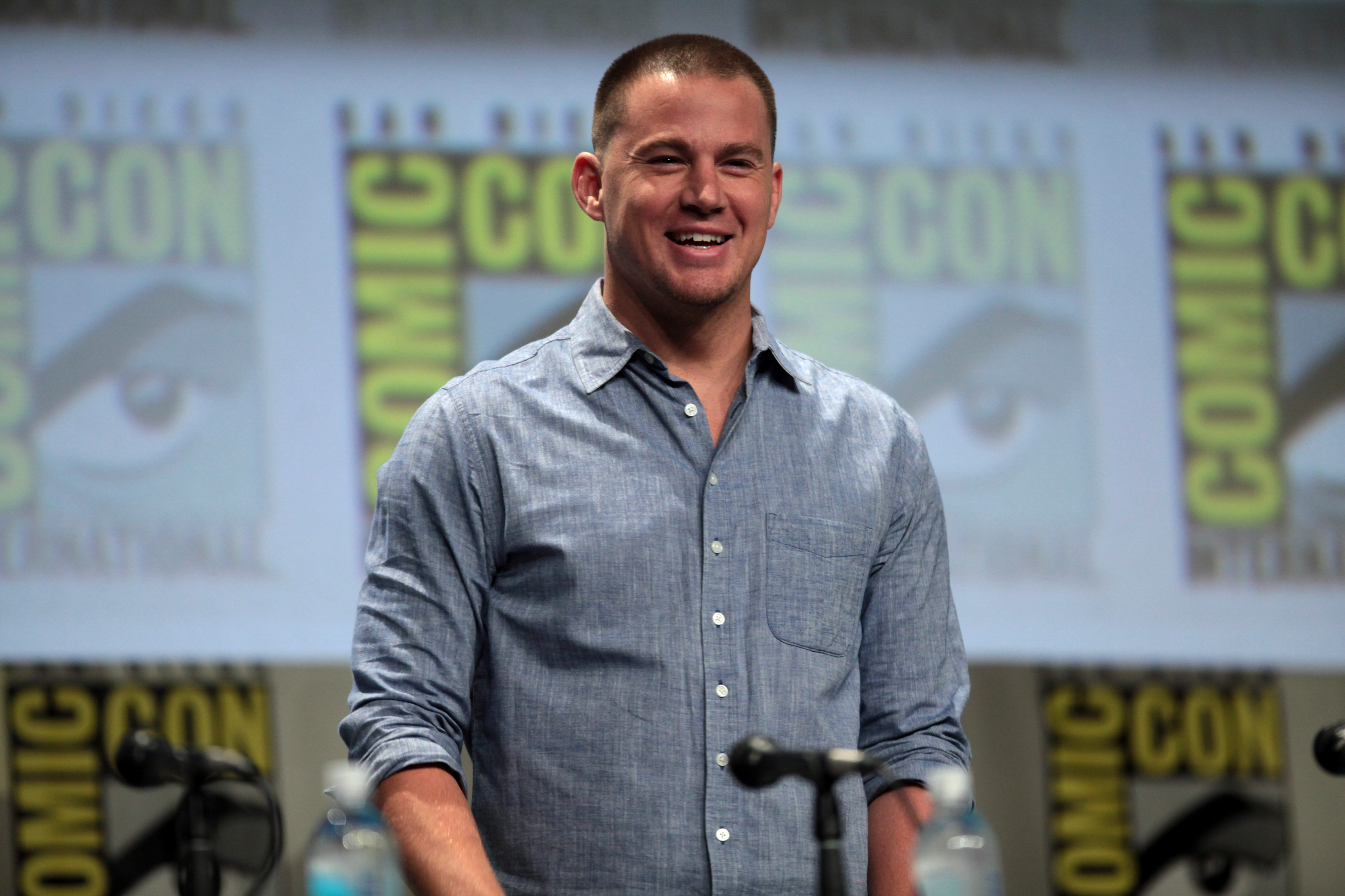 Channing Tatum speaking at the 2014 San Diego Comic Con International, for "Jupiter Ascending", at the San Diego Convention Center in San Diego, California on July 26, 2014. Photo by Gage Skidmore